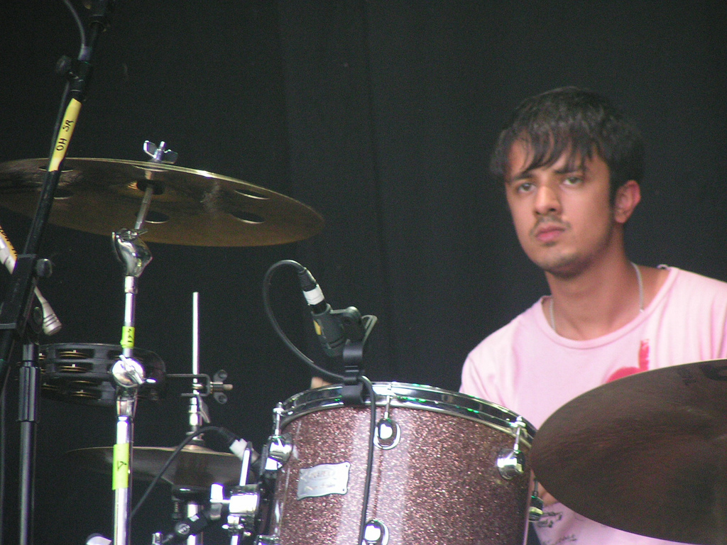 Photo of Kapil Trivedi by Mystery Jets